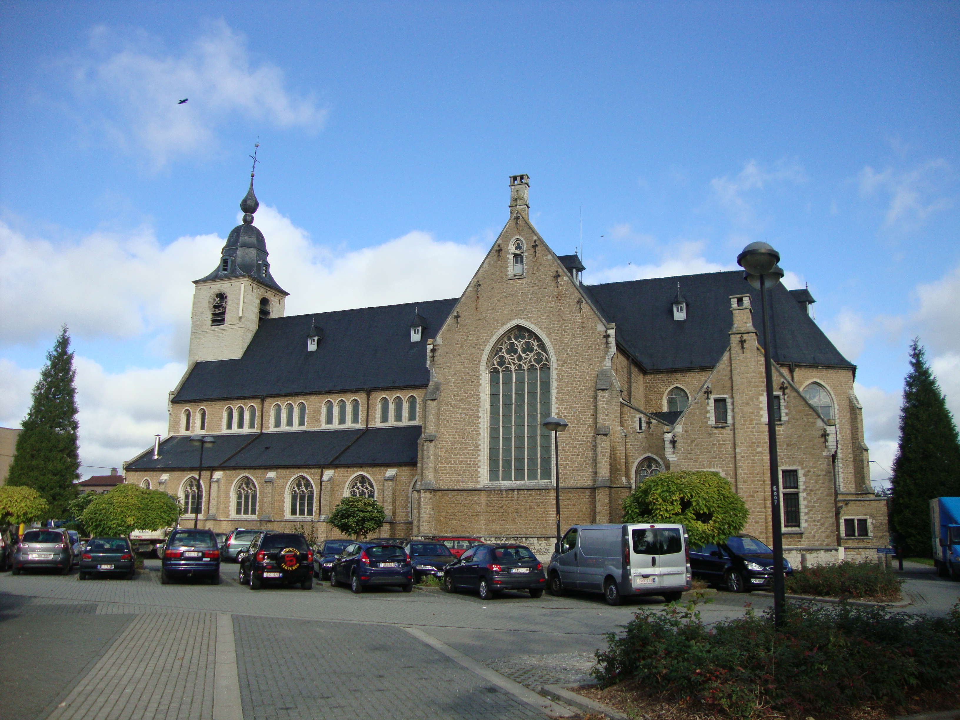 Our Lady Church in 17th and 20th centuries, Kortenberg